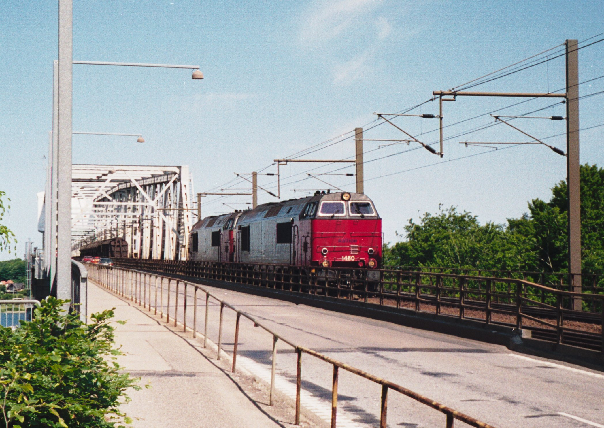 Railion Danmark's (RDK) class MZ #1450 and #1458 on the Little Belt Bridge with freight train G 9154. Cropped version of this picture.